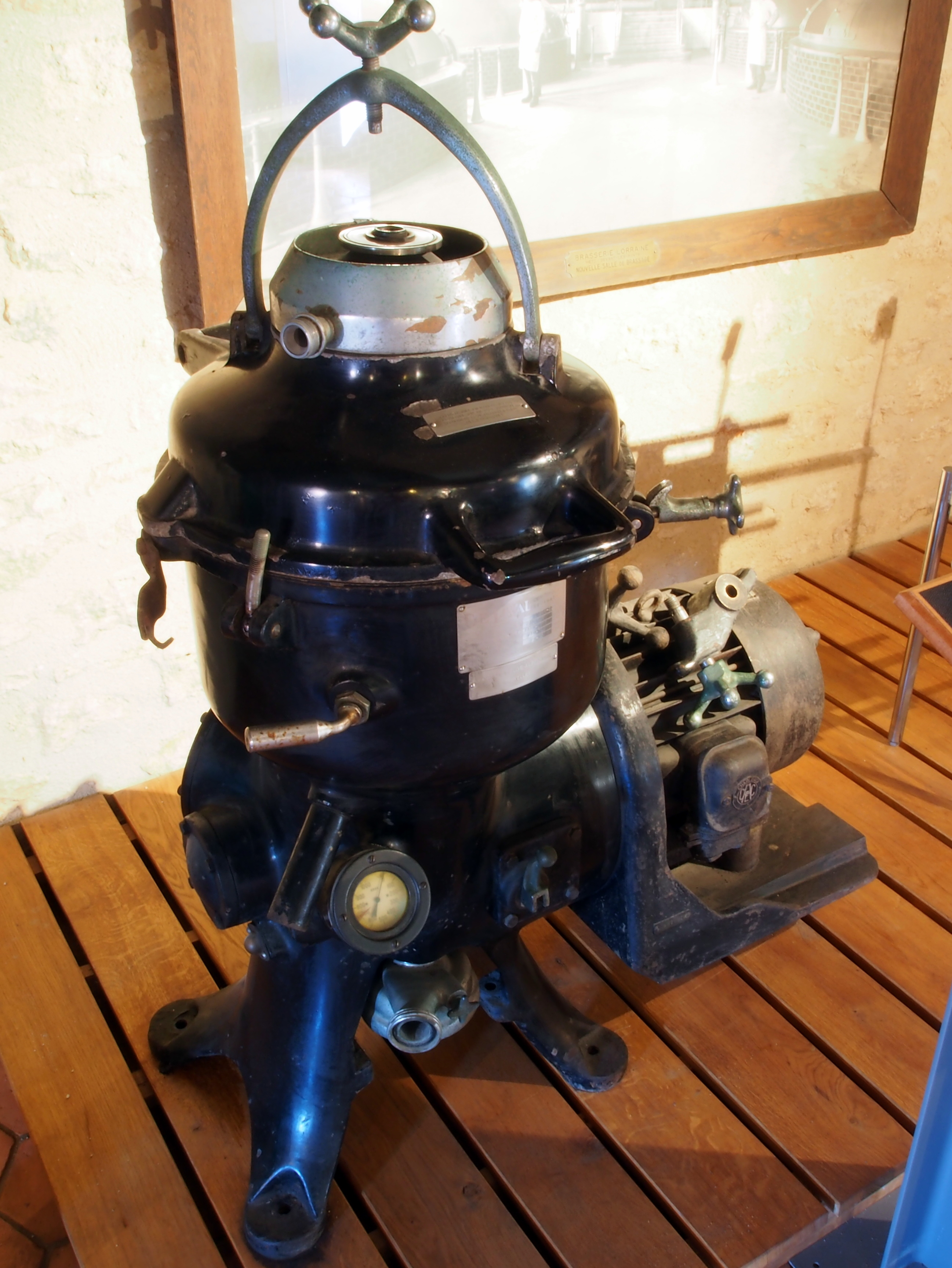 Beer centrifuge.